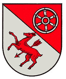 Coat of arms of Bennhausen